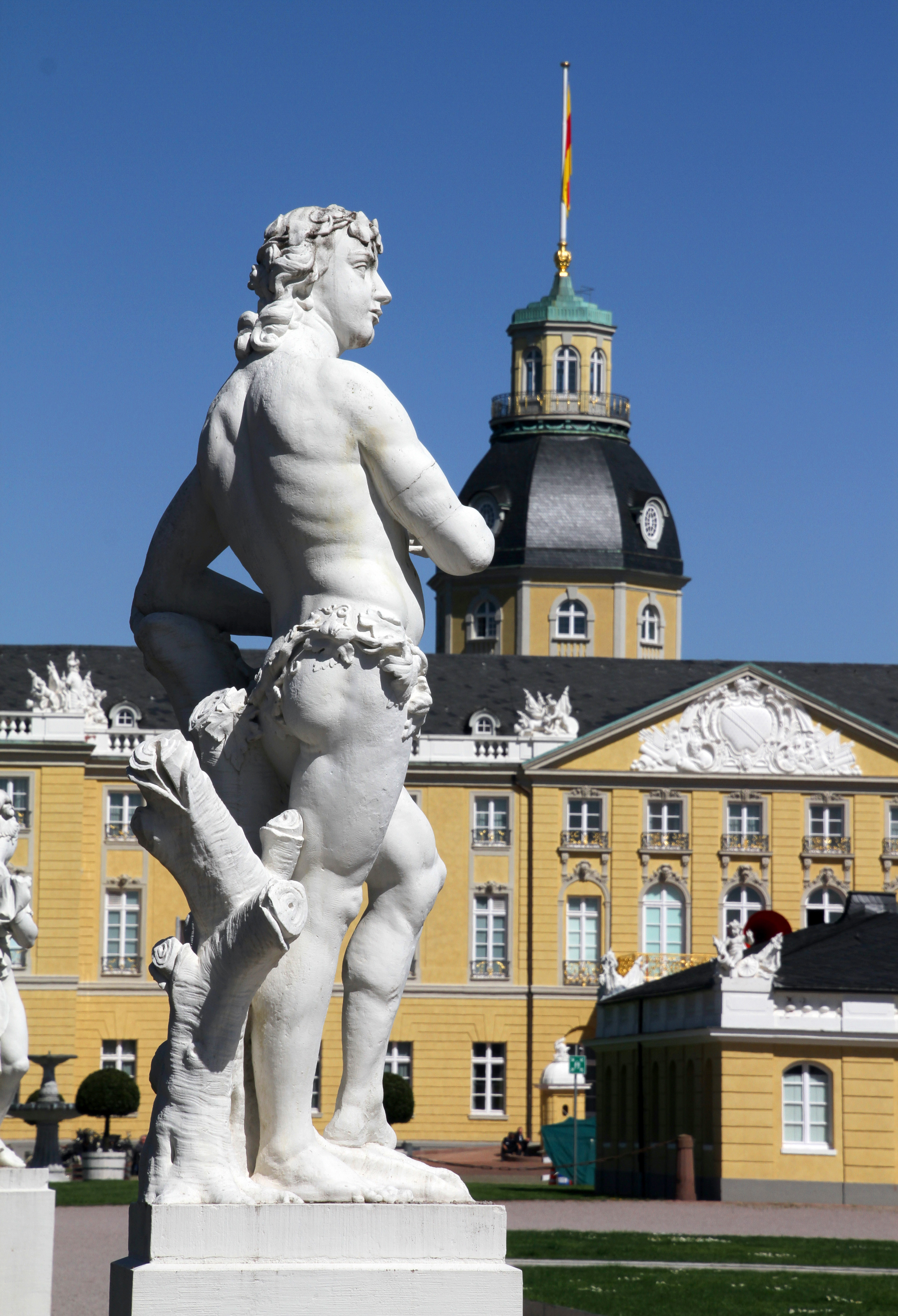 Karlsruhe Palace